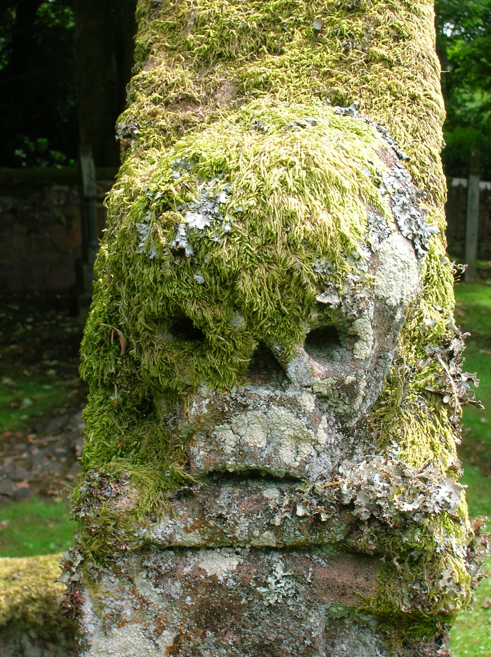 A moss-covered skull on a gravestone edge at Durisdeer, Dumfries and Galloway, Scotland.